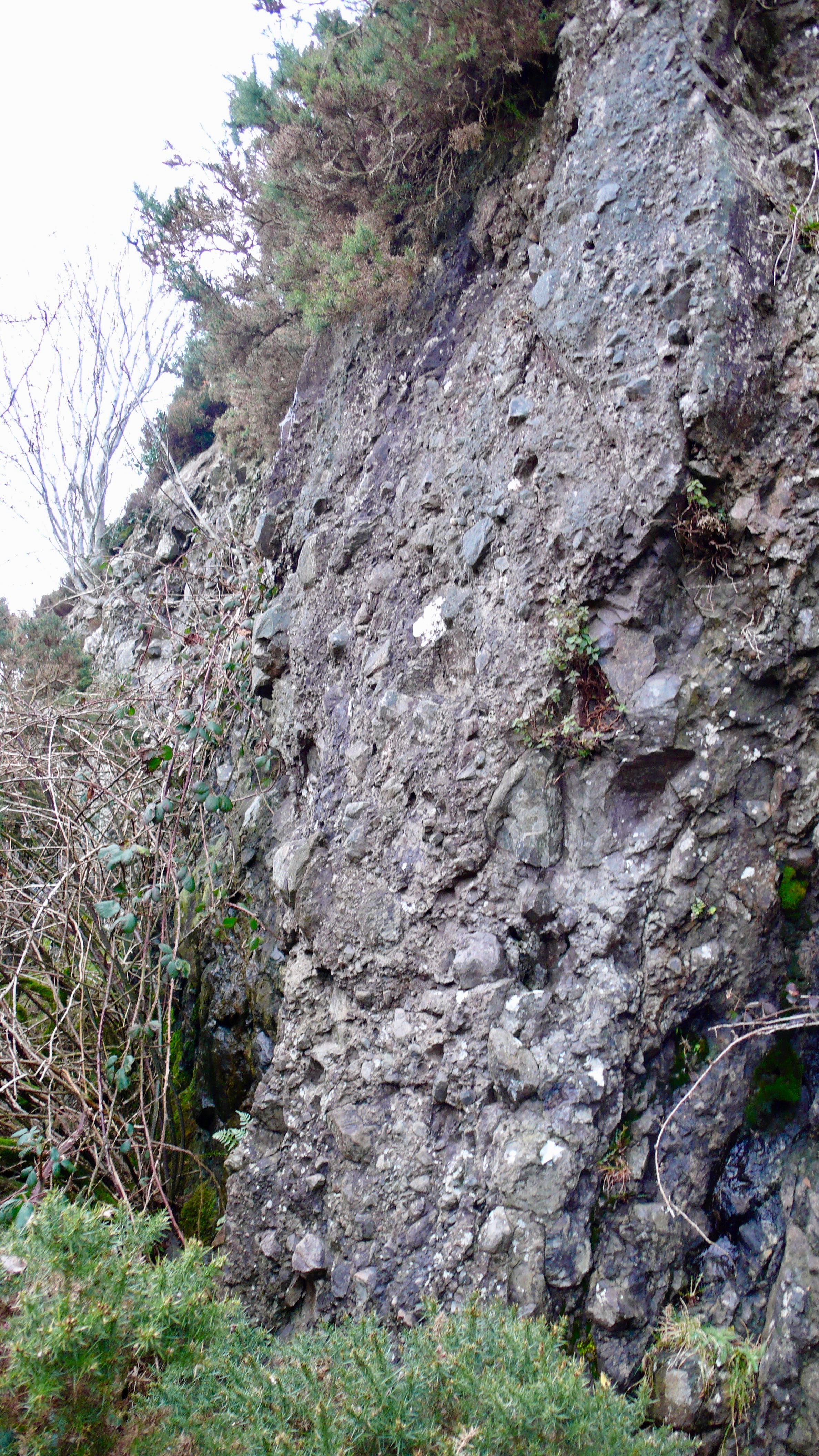 Outcrop is part of a series of narrow intrusion breccia dykes developed east of Lough Eske. It was caused by gas streaming up a pre-existing series of sub-parallel faults 2 kilometres south of Barnesmore granite.